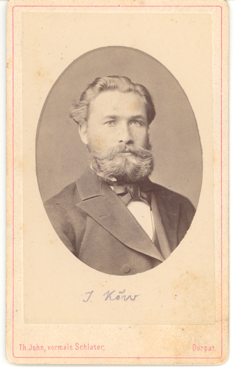 Jakob Kõrv (1849-1916), Estonian writer and journalist